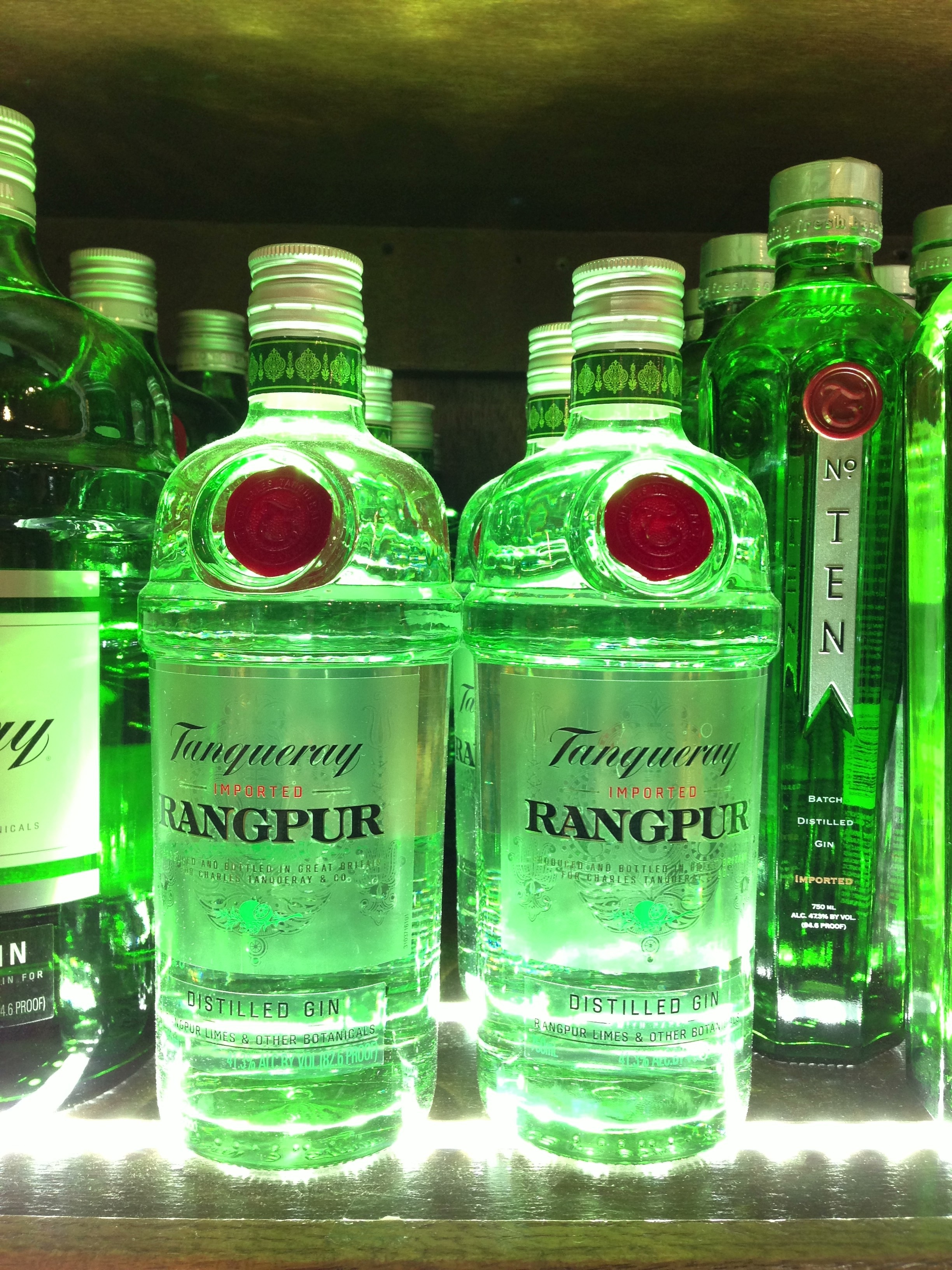 Former layout of Tanqueray Gin brands HDR - Feb 2013